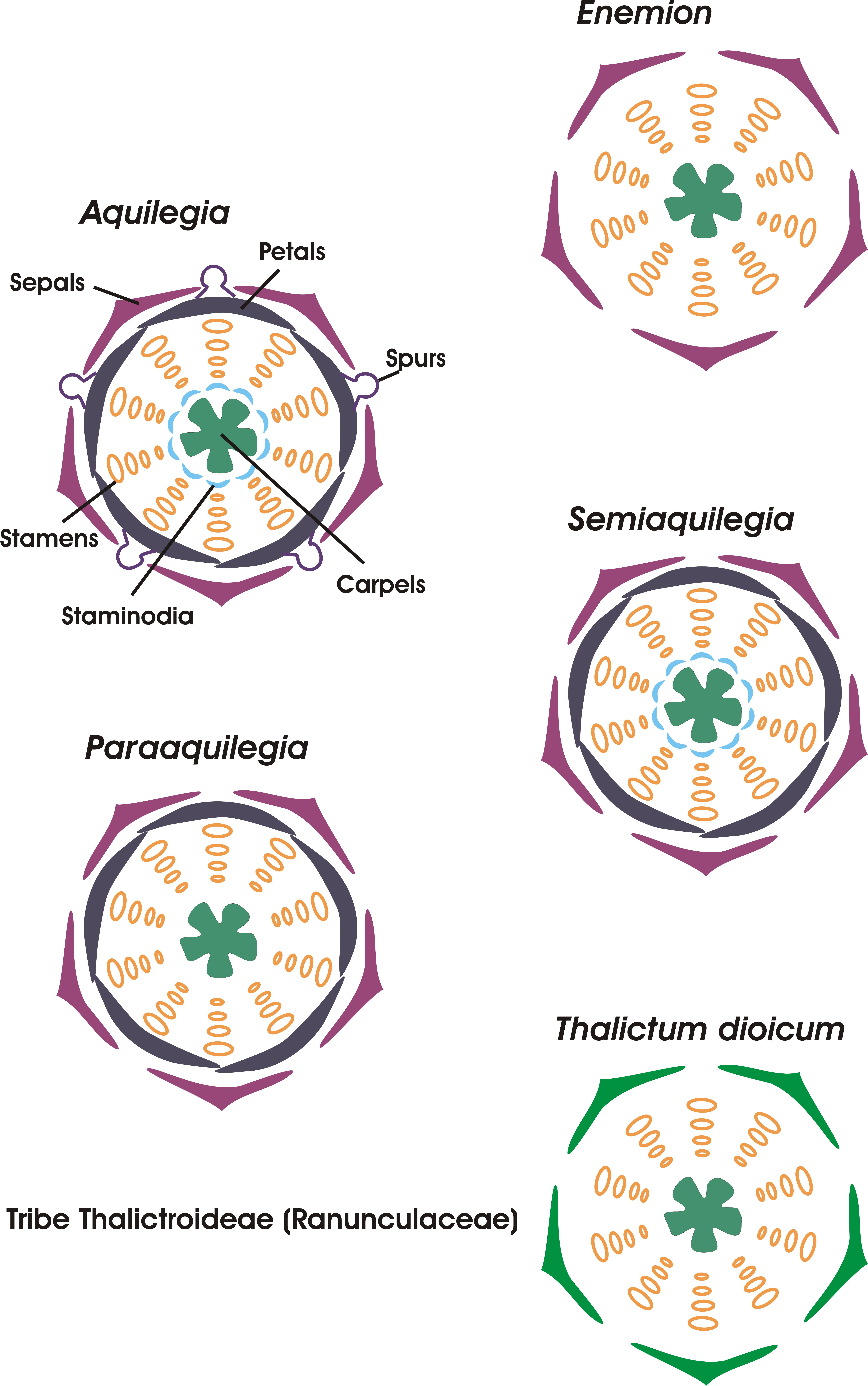 Floral morphology of genera in the tribe Thalictroideae (Ranunculaceae) displays the diversity of the entire family. Enemion and Thalictrum lack petals entirely, wheras in Thalictrum dioicum petaloidity of the sepals is also lost. The novel organ of the staminodium is present only in Semiaquilegia and Aquilegia, the latter is also the only which displays nectar spurs.